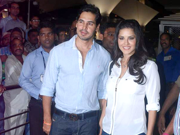 Sunny Leone received by Dino Morea and team at her arrival for Jism 2 shooting, Mumbai, India